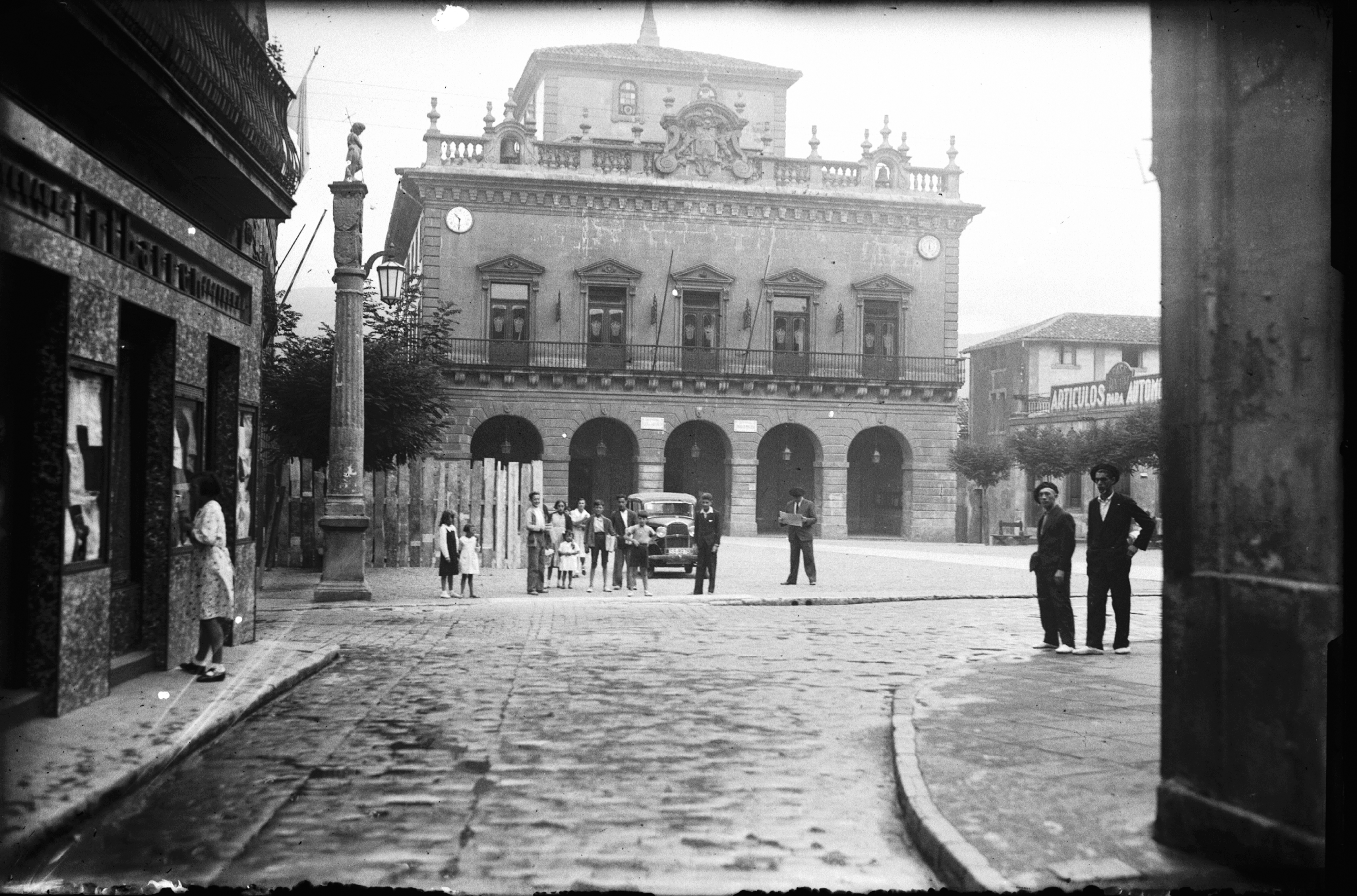 San Juan Square at 1930